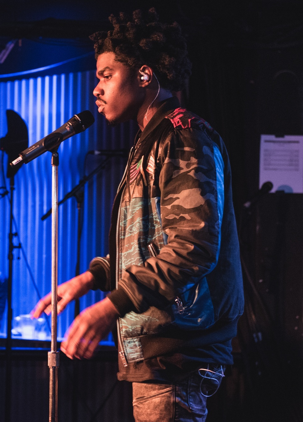 Smino performing in October 2016